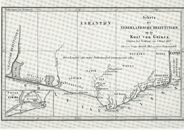 This map shows the Dutch possessions on the Gold Coast after forts were traded with Britain in 1867. All forts to the east of Elmina were given to Britain, those West of Elmina became Dutch. The treaty established a Dutch protectorate in the Gold Coast, but did not last long, as in 1872 all remaining Dutch forts were sold to the United Kingdom.